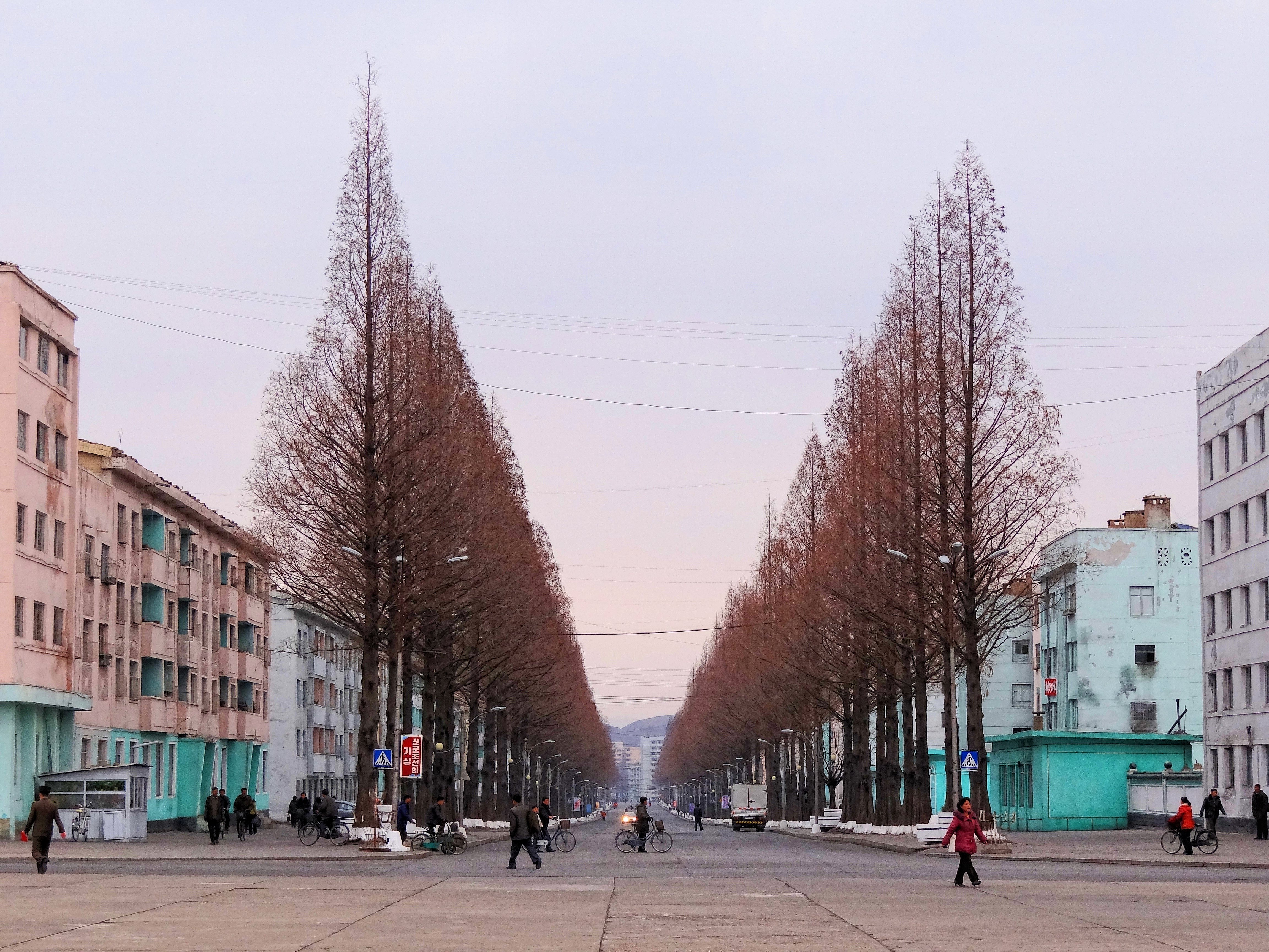 The avenue leading down from the square by the revolutionary museum towards the railway station in Pyongsong, North Korea.